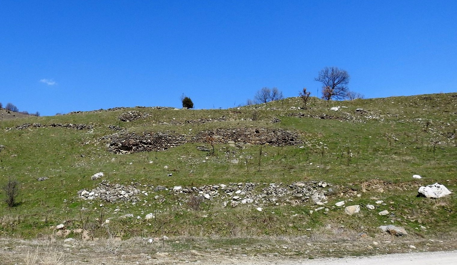 Setina Fortress